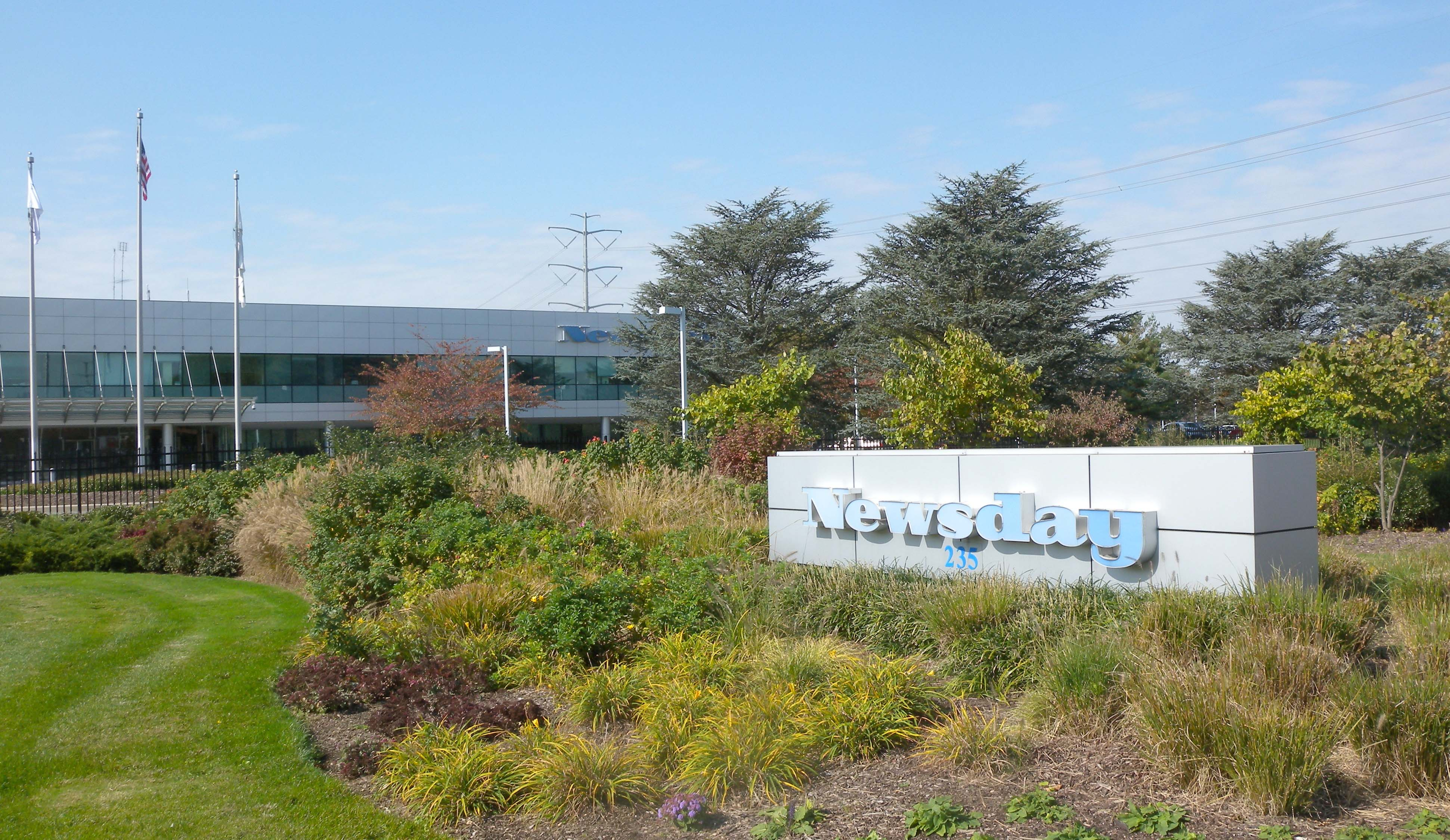 Looking west at Newsday headquarters in Melville, New York on a sunny midday